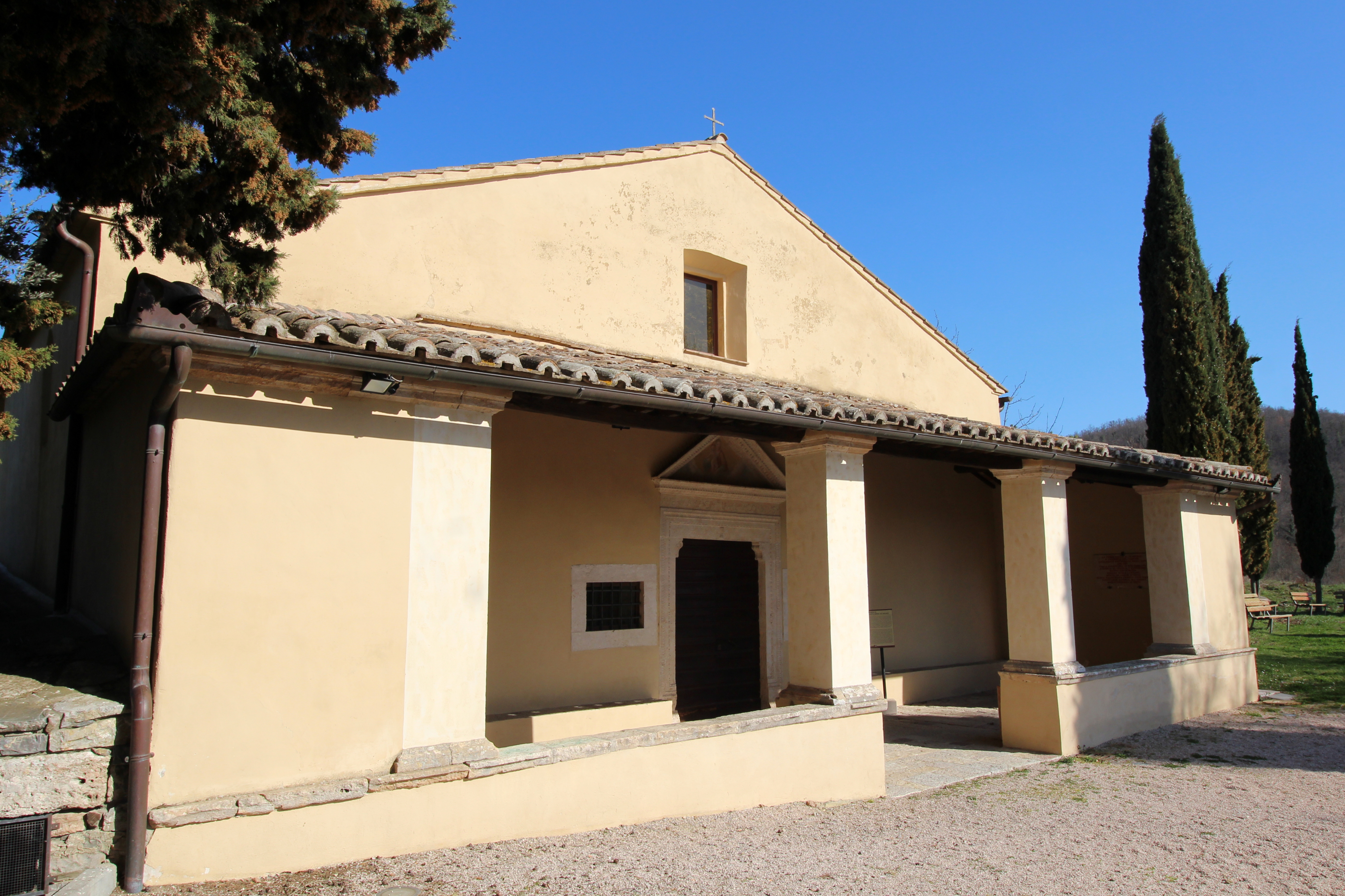 Church Santa Maria ad Balnea, near the hot springs outside of San Casciano dei Bagni, Province of Siena, Tuscany, Italy